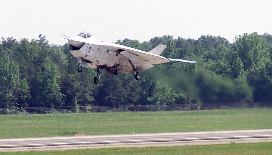 The X-32 takes off for Naval Air Station Patuxent River, MD, from Little Rock AFB. The X-32 is one of two experimental aircraft involved in the Joint Strike Fighter (JSF) program. The program is intended to provide a universal air attack platform for all branches of the American armed services. Location: Little Rock Air Force Base, Arkansas (Ar) USA